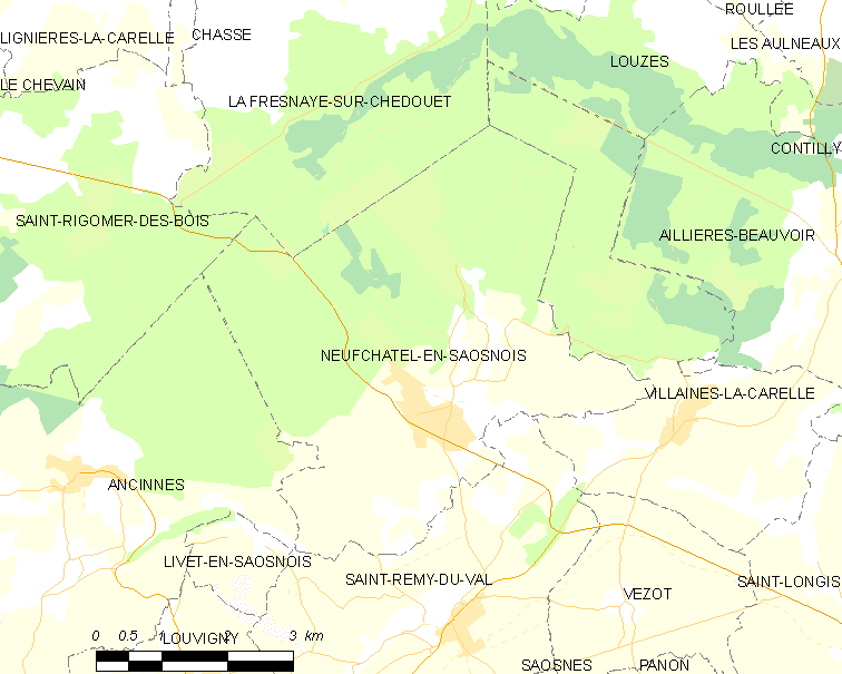 Map of French municipality